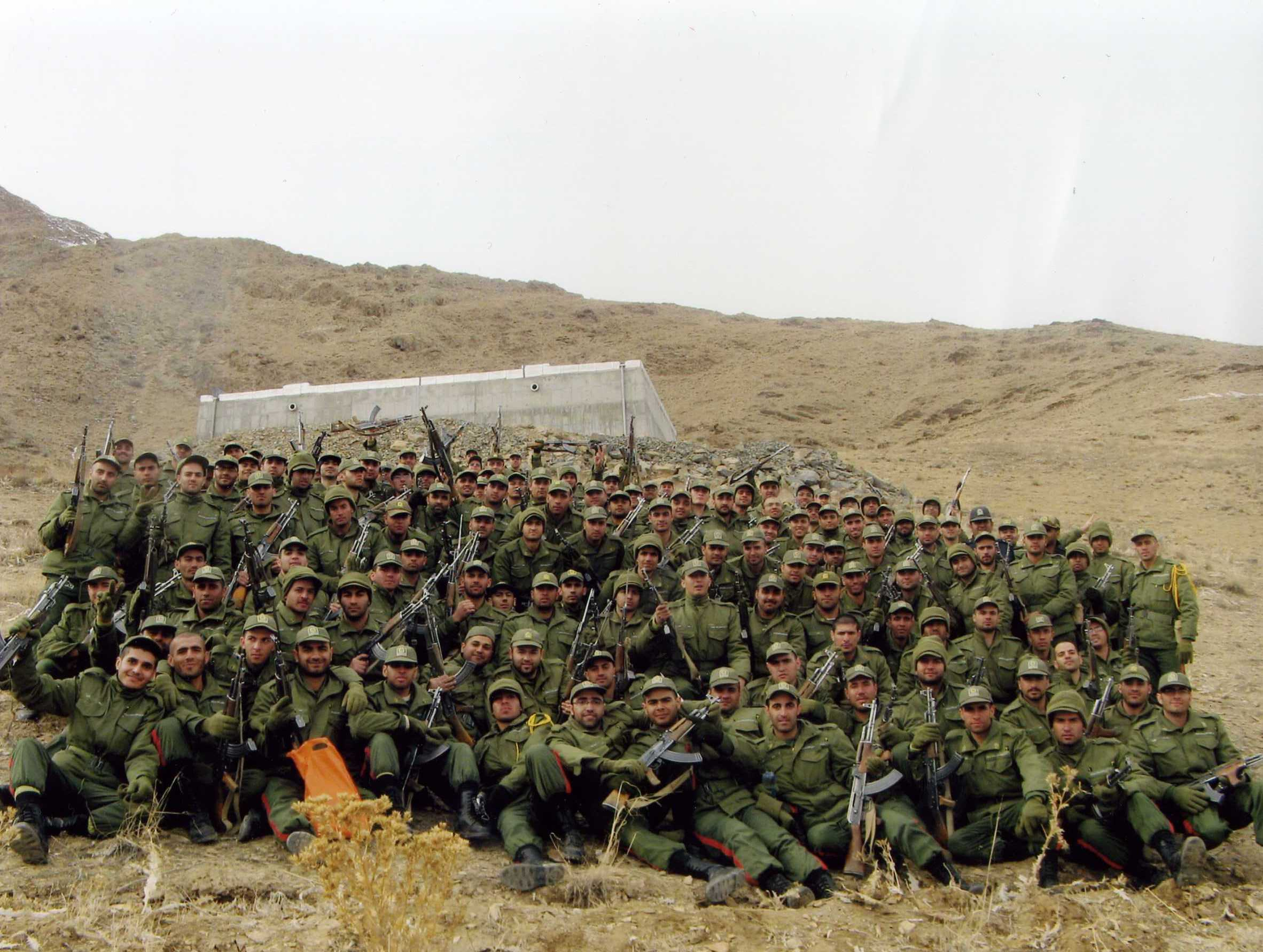 A number of Amateur young soldiers (with a bachelor's degree) in training term (bimestrial) in the Malik al-Ashtar barrack belong to Law enforcement in Iran.